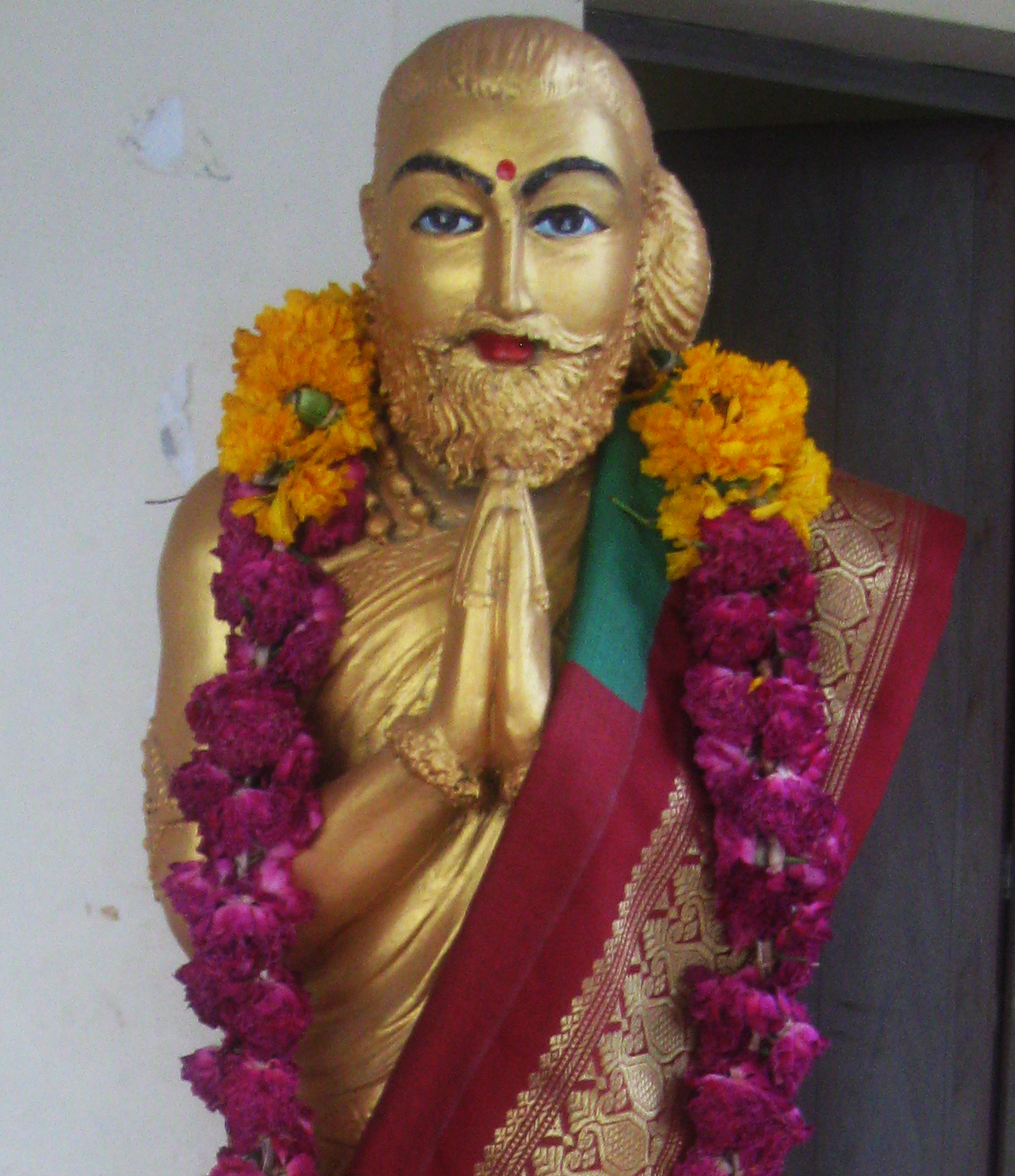 Kambar cropped